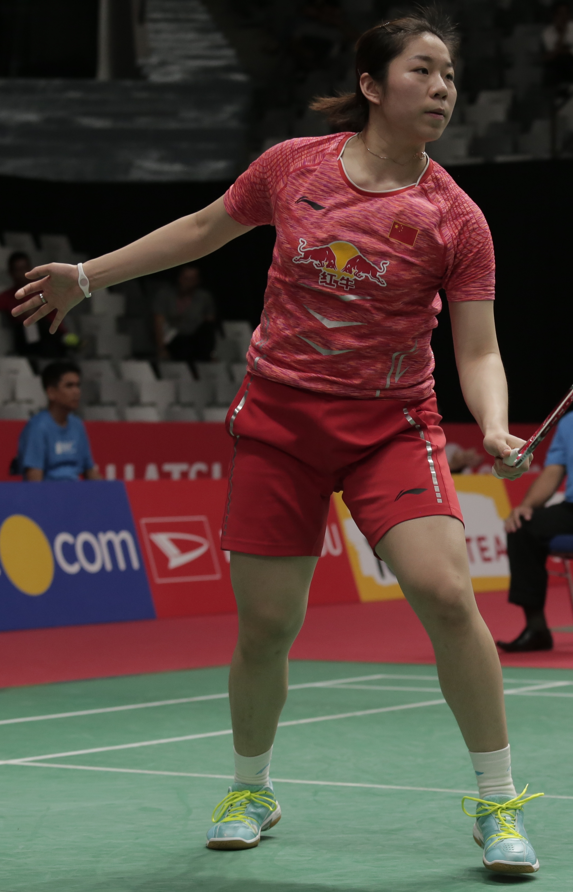 Jia Yifan in action at Indonesia Masters 2018 badminton tournament